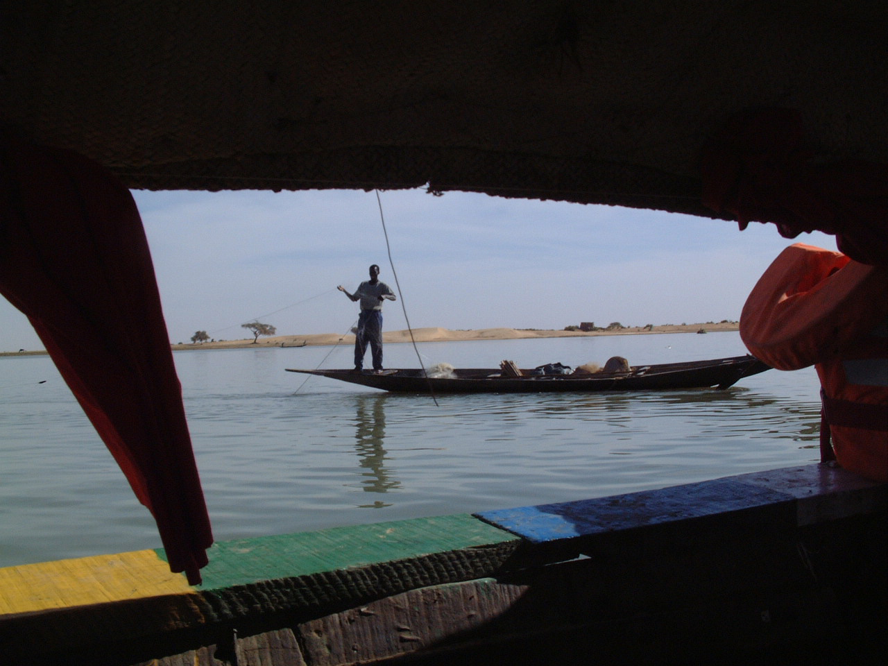 Fisherman Bozo on the Niger River near Gao, Mali.